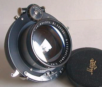 The Aristostigmat is a camera lens by German optics manufacturer Meyer-Optik, Goerlitz. The Aristostigmat is Meyer's highy successful version of the Gauss double objective. This one has a maximum aperture of 1:4.6 and a focal length of 210 mm; diagonal view.